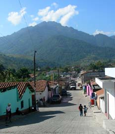 Street scene in San Andrés Sajcabajá, El Quiché, Guatemala, on 2006-11-10. I took this photo.